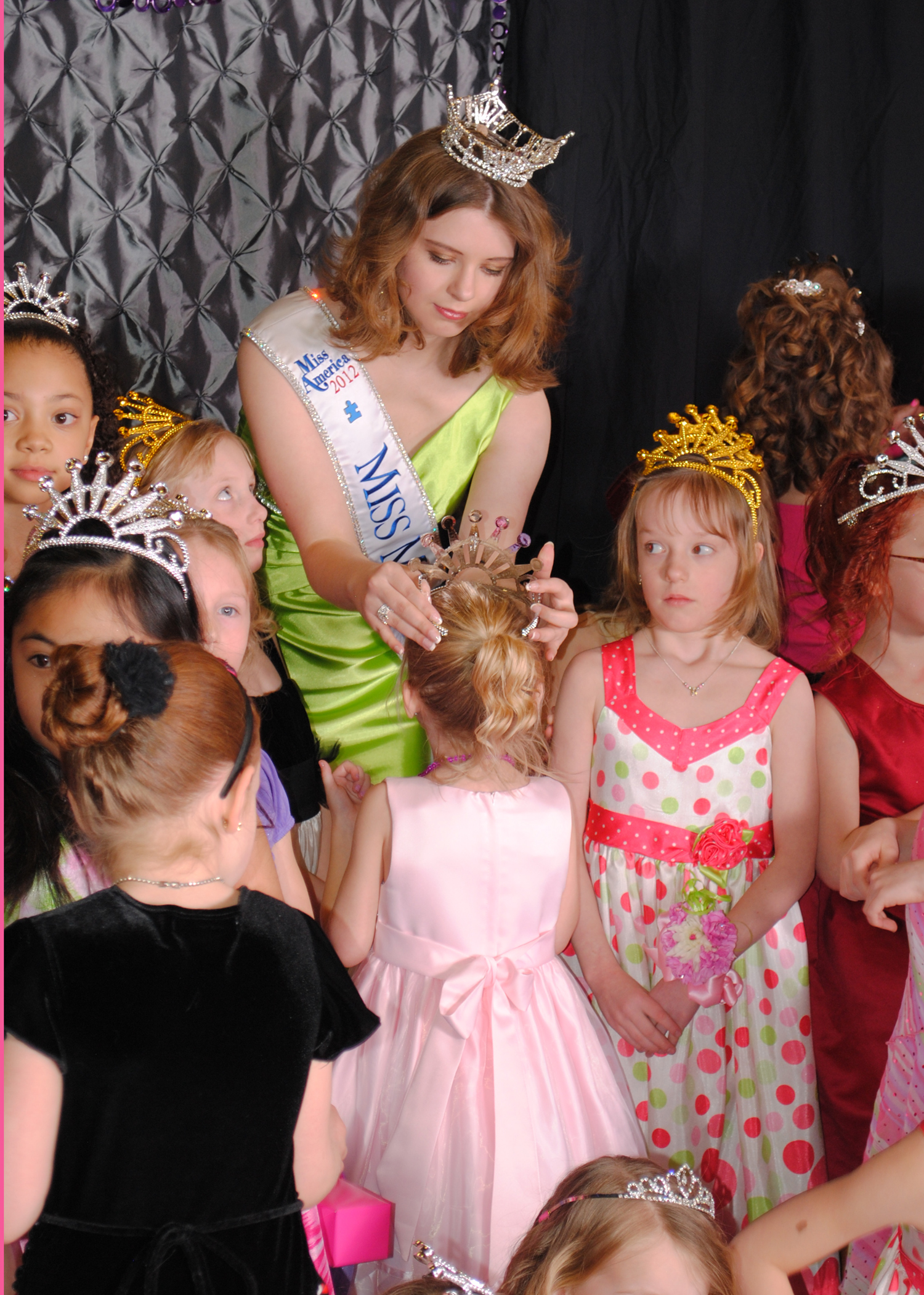 Miss Montana Alexis Wineman assisting young ladies with putting on their tiaras during the Malmstrom Air Force Base Father Daughter Dance